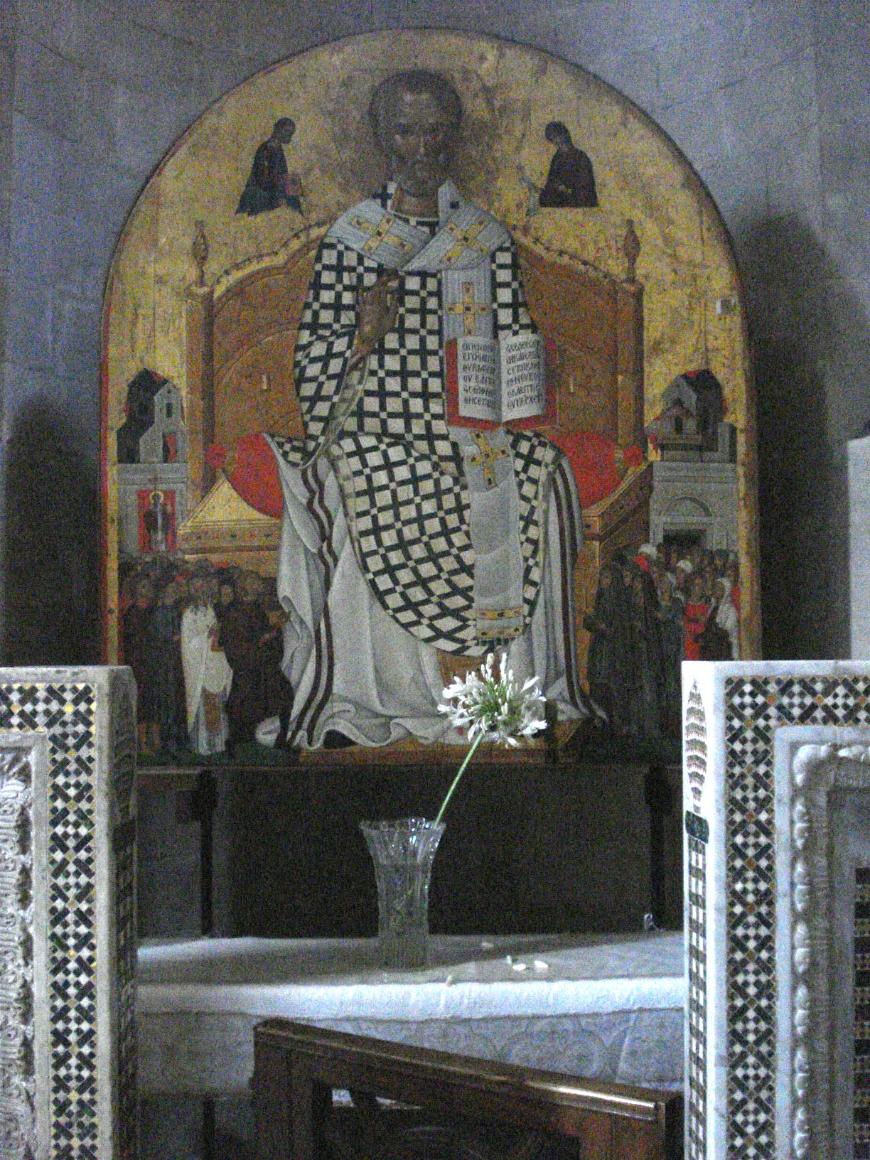 Great icon with S. Nicolò enthroned, 15th-century Cretan-Albanian school, located in the right abside (Diaconicon) from the Martorana Church. The panel comes from the original seat of the parish of 1547, adjacent to the Italo-Albanian Seminary of Palermo (1734).